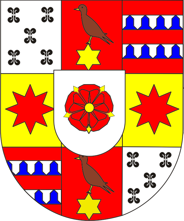 coats of arms of the principality of Lippe; 1,9: county of Vianen; 2,8: county of Schwalenberg; 3,7: lordship of Ameide; 4,6: county of Sternberg; heart: lordship of Lippe